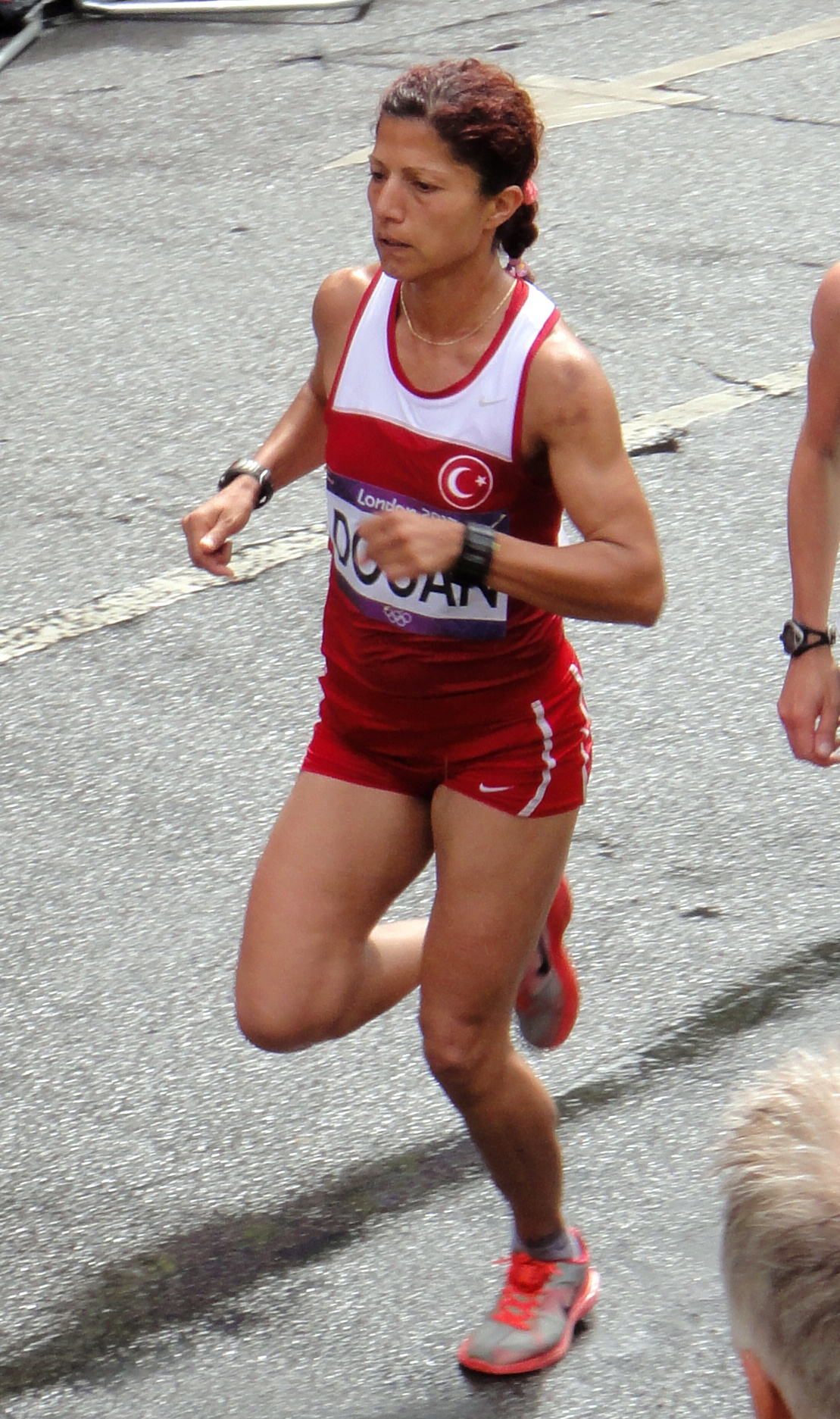 Linda Byrne (Ireland) Bahar Dogan (Turkey) - London 2012 Women's Marathon